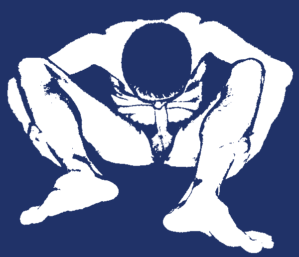 A picture of autofellatio.